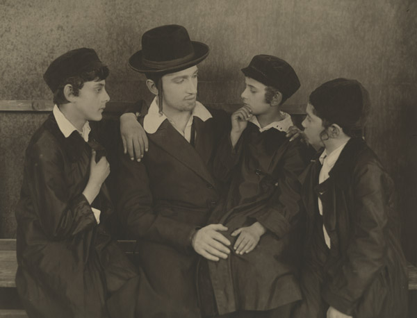 Jacob Kalich (second left) in Mezrach und Maarev, 1921. The comedy Mezrach und Maarev was written by Sidney M. Goldin and Eugen Preiss. It was filmed as Ost und West in 1923 and was also known as Mazel Tov in the United States. Goldin also served as director. Persistent URL: Center for Jewish History Repository: American Jewish Historical Society Parent Collection: Molly Picon Papers Digital images created by the Gruss Lipper Digital Laboratory at the Center for Jewish History.